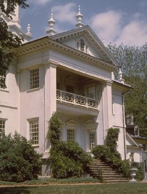 Manor at Hampton National Historic Site in Hampton, Maryland.